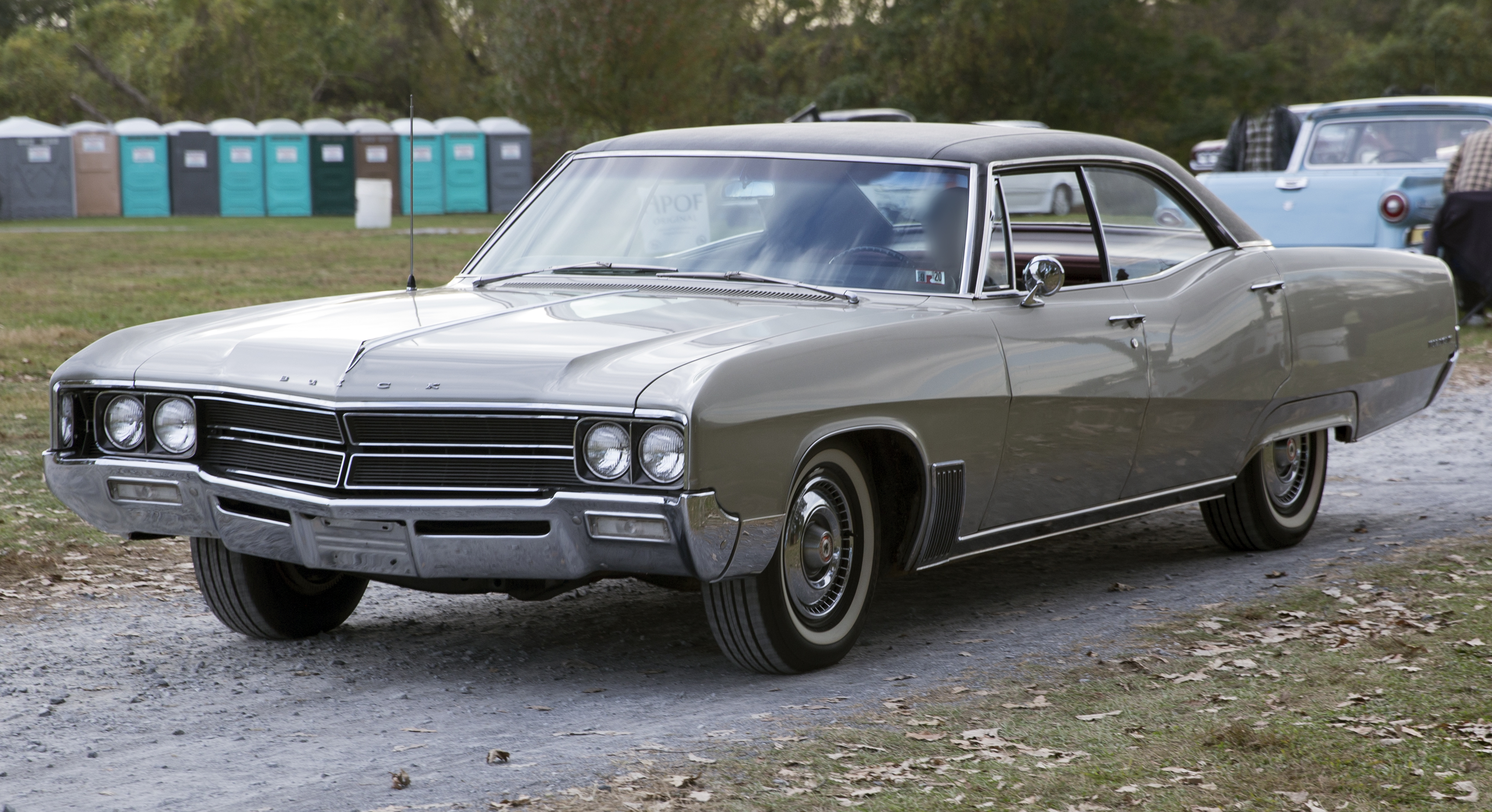 A 1967 Buick Wildcat 4-door Hardtop Sedan leaving the show area at Hershey 2019.